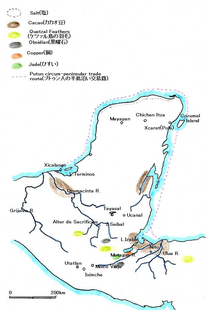 Map of Putun trade route and terminal-classc or early postclassic maya sites